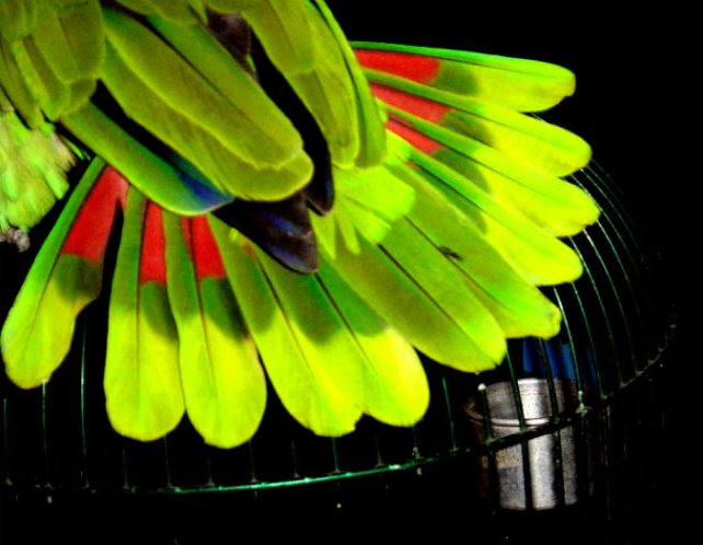 Tail of a pet Blue-fronted Amazon also called the Turquoise-fronted Amazon and Blue-fronted Parrot.